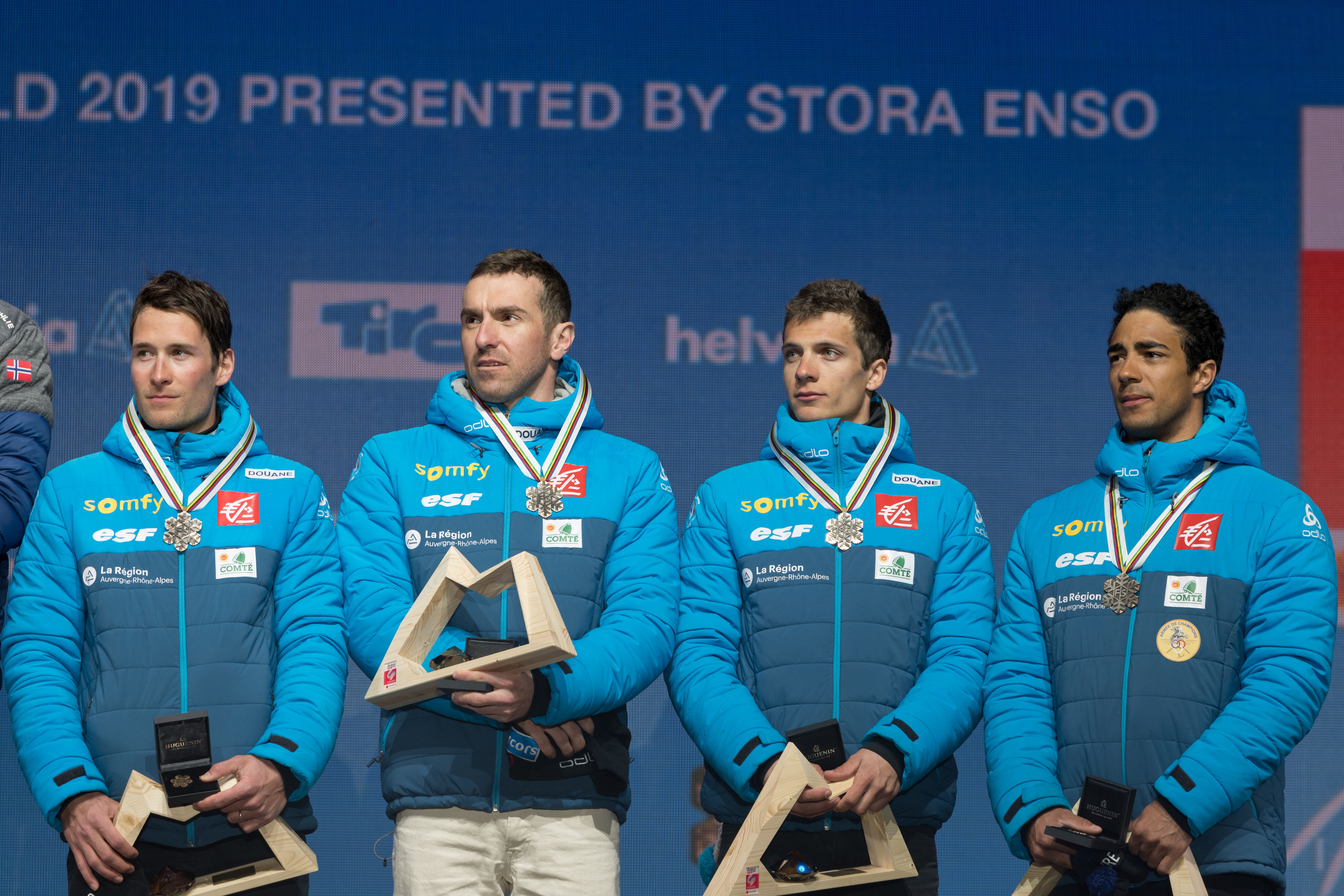 FIS Nordic World Ski Championships Seefeld 2019 - Medal Ceremony at the Medal Plaza. Picture shows Adrien Backscheider (FRA), Maurice Manificat (FRA), Clement Parisse (FRA), Richard Jouve (FRA).